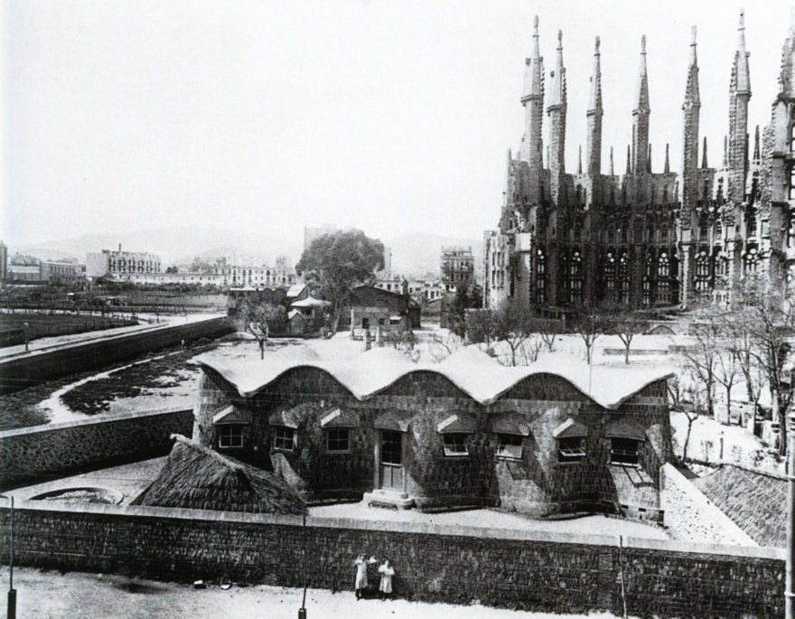 School at Sagrada Família in Barcelona, designed by Gaudí. Photograph from 1909.